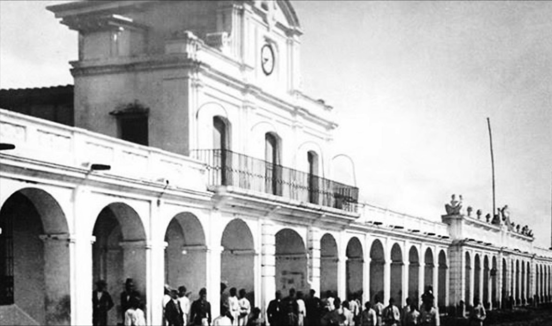 Royal Palace in 1911